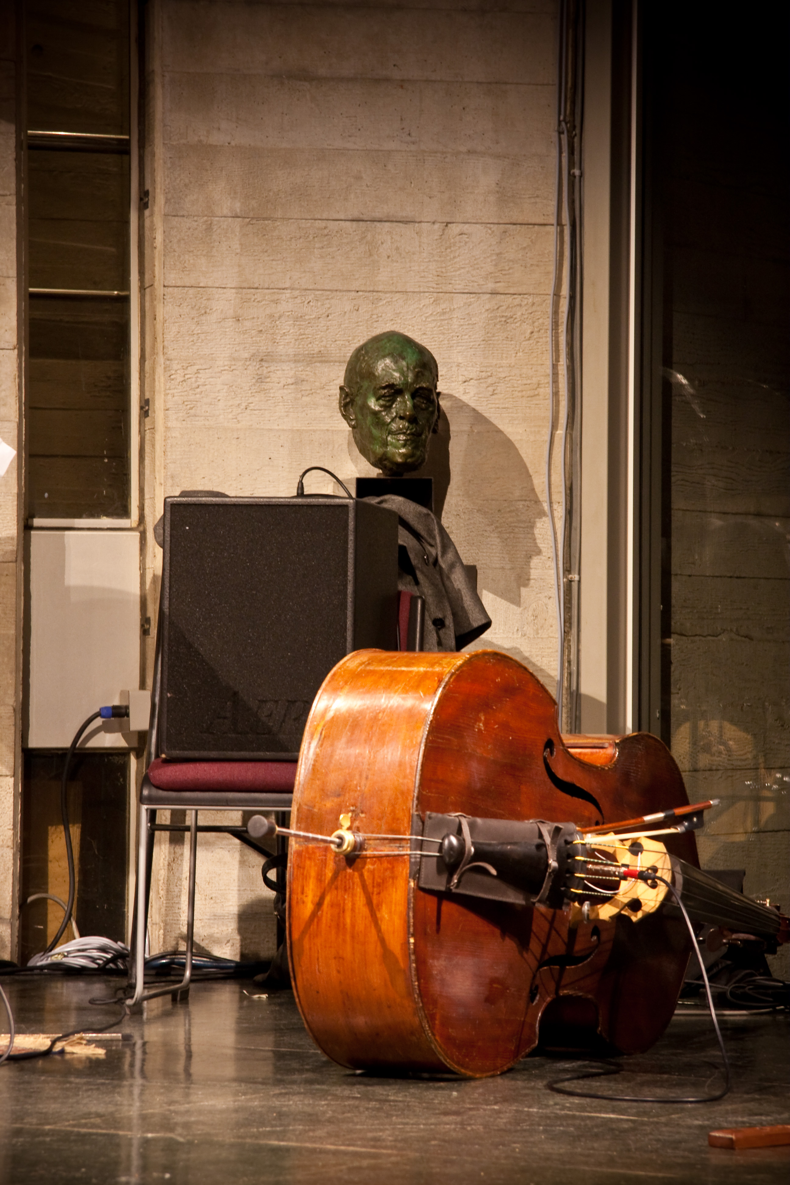 Left on stage during the break. Flickr Tags: 40D Canon Creative Commons London National Theatre South Bank double bass lightroom music.